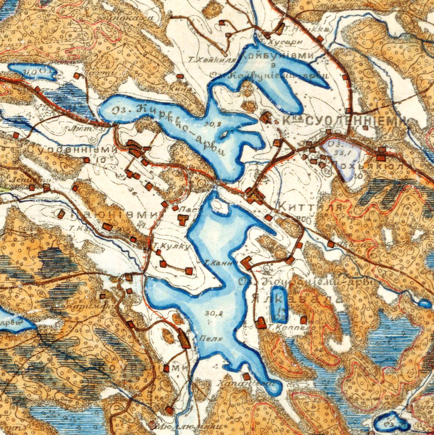 Extract from the Senate map collection at the National archives of Finland